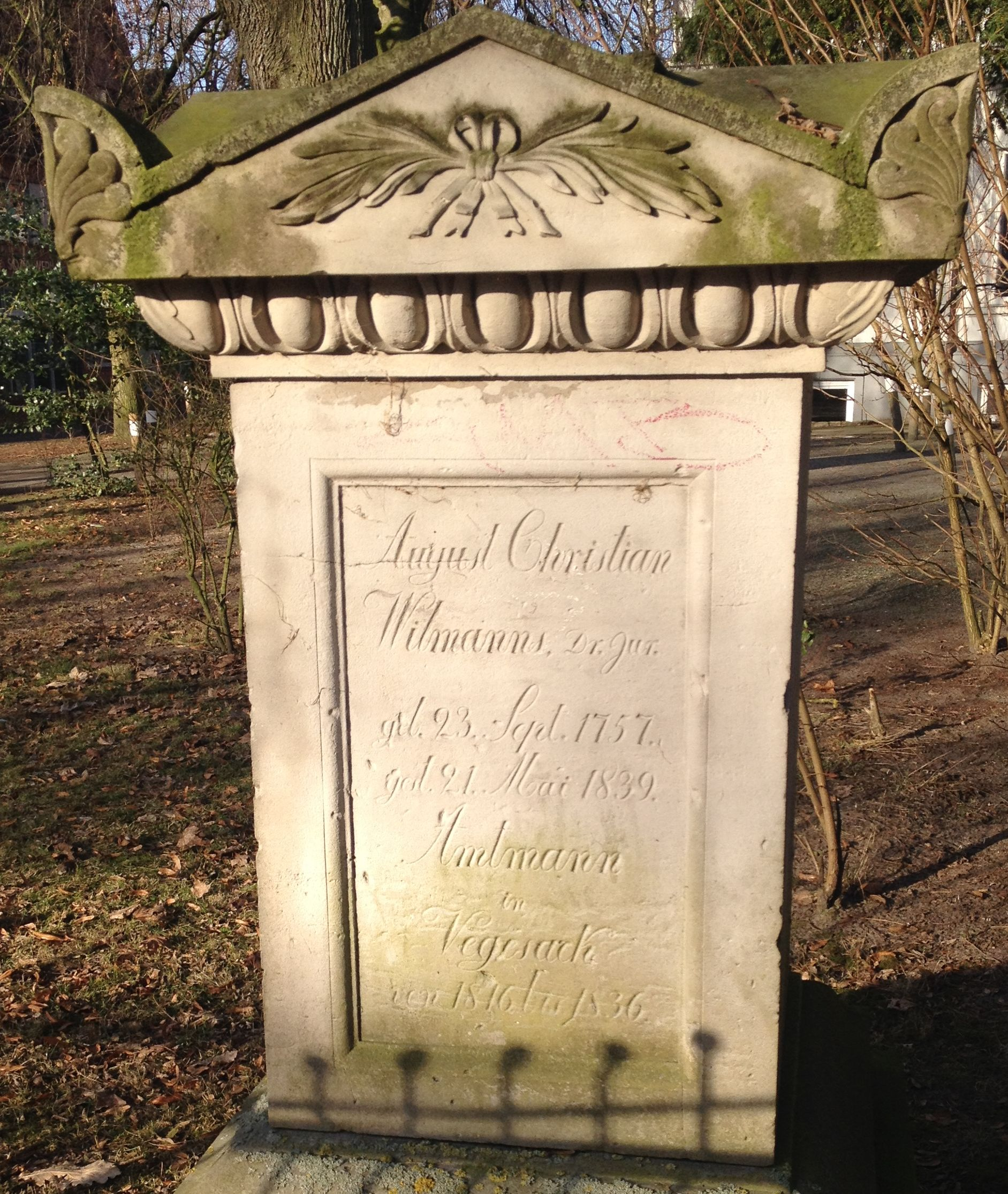 memorial stone for August Christian Wilmanns near Stadtkirche Vegesack